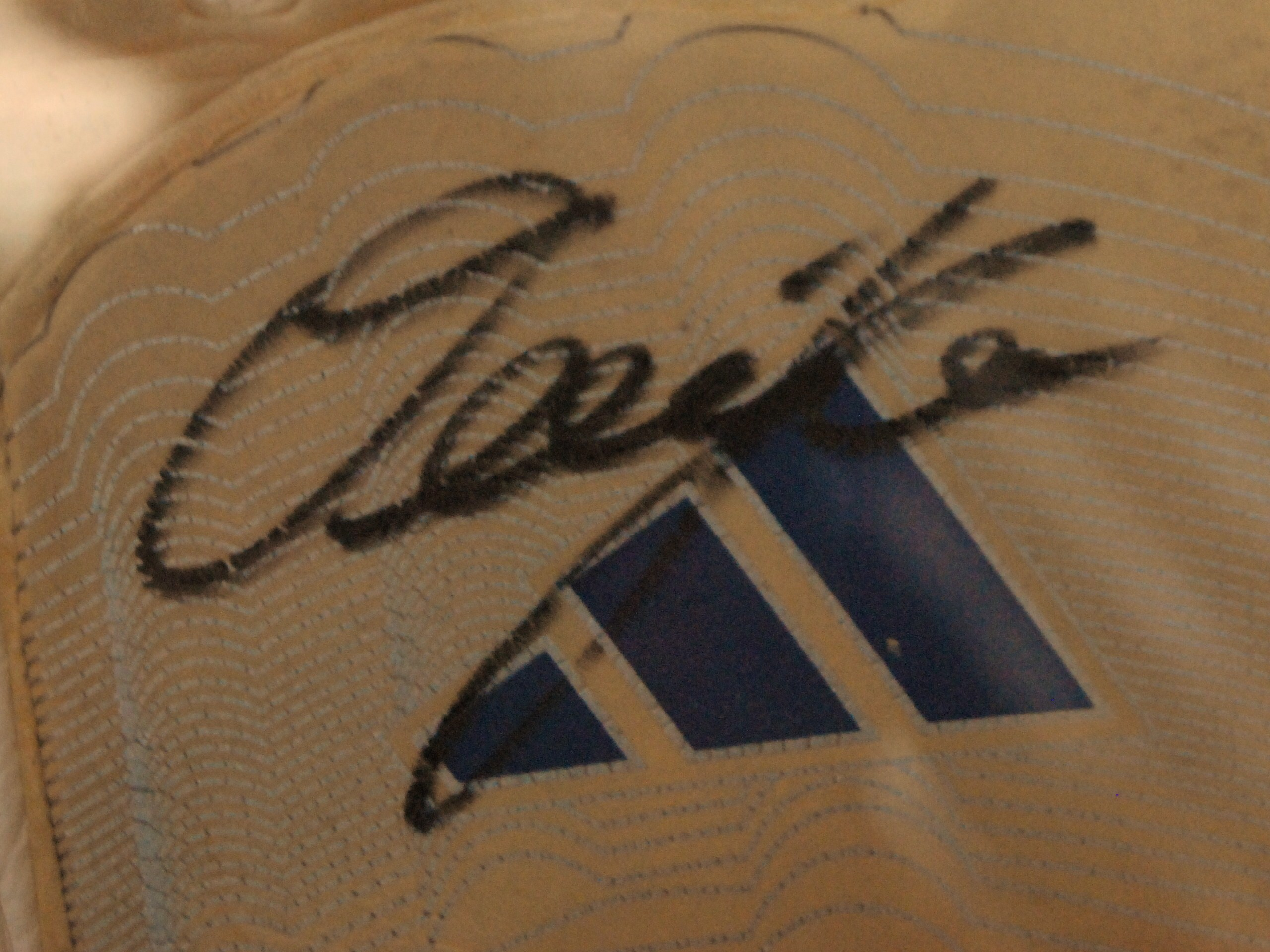 autograph of Oliver Kahn